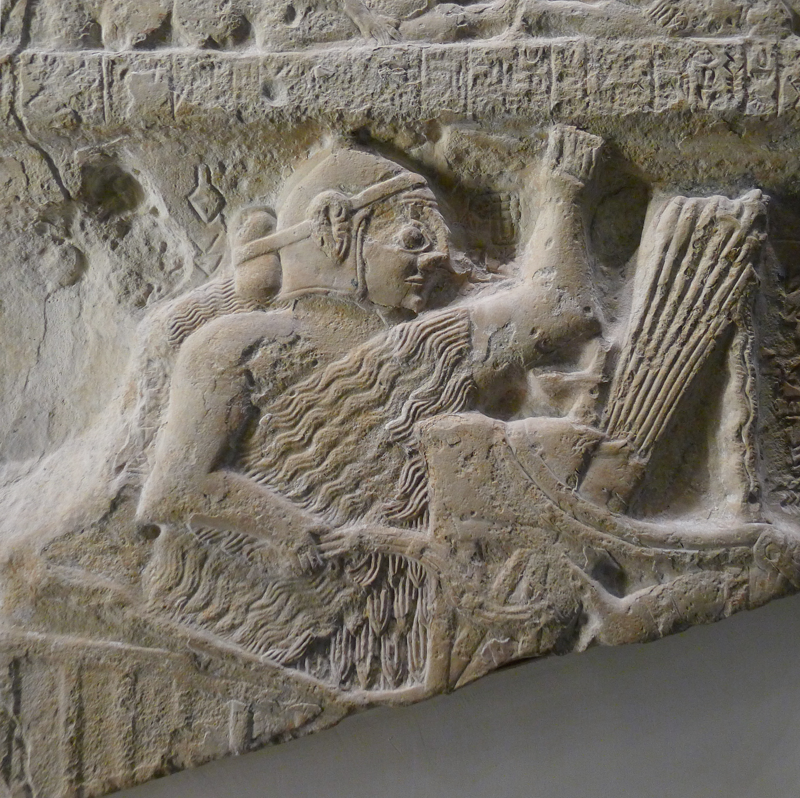 One fragment of the victory stele of the king Eannatum of Lagash over Umma, called « Stele of Vultures ». Limestone, circa 2450 BC, Sumerian archaic dynasties. Found in 1881 in Girsu (now Tello, Iraq), Mesopotamia, by Édouard de Sarzec.